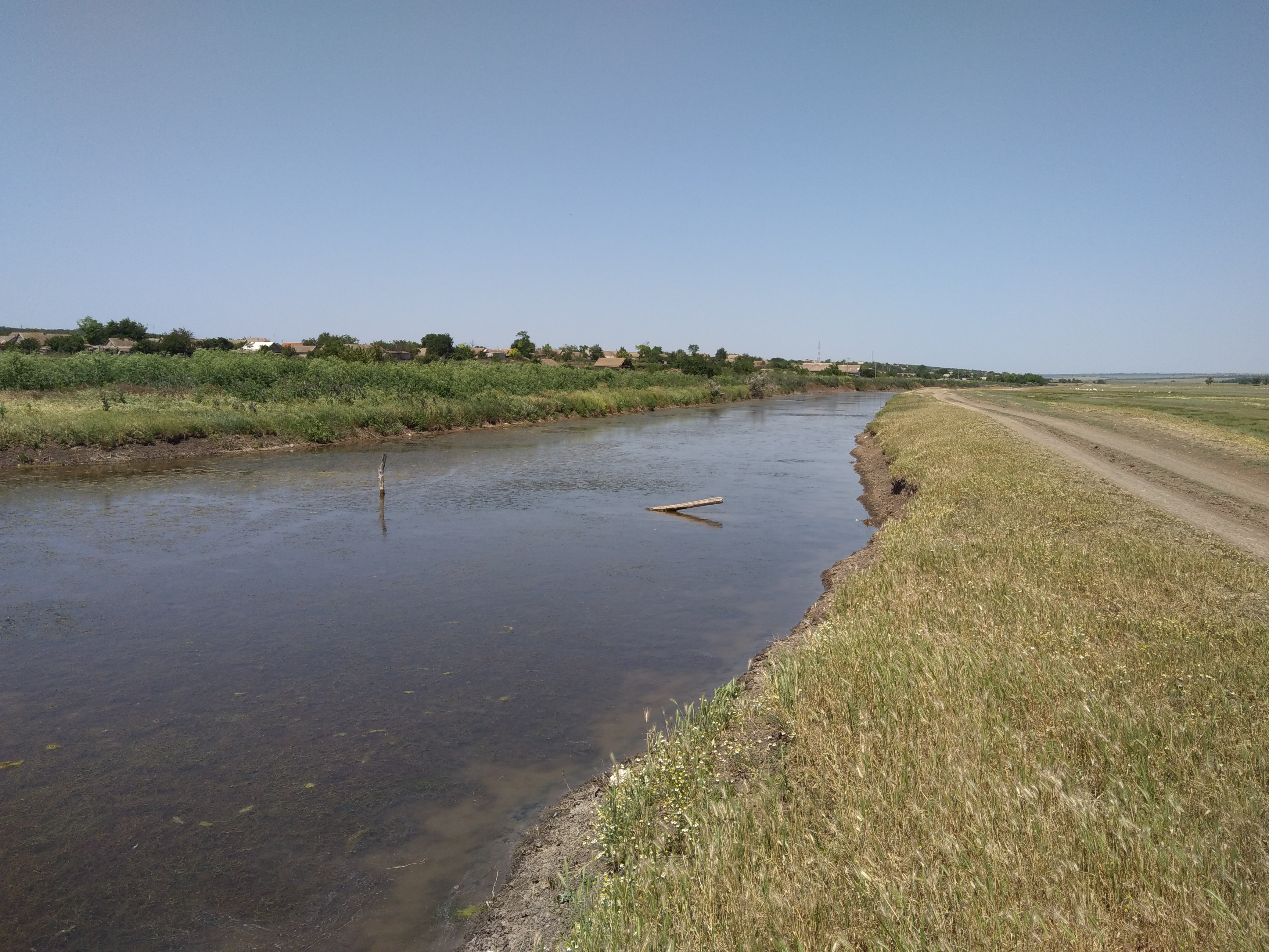 Kirgizh-Kitay River, Odesa Oblast, Ukraine